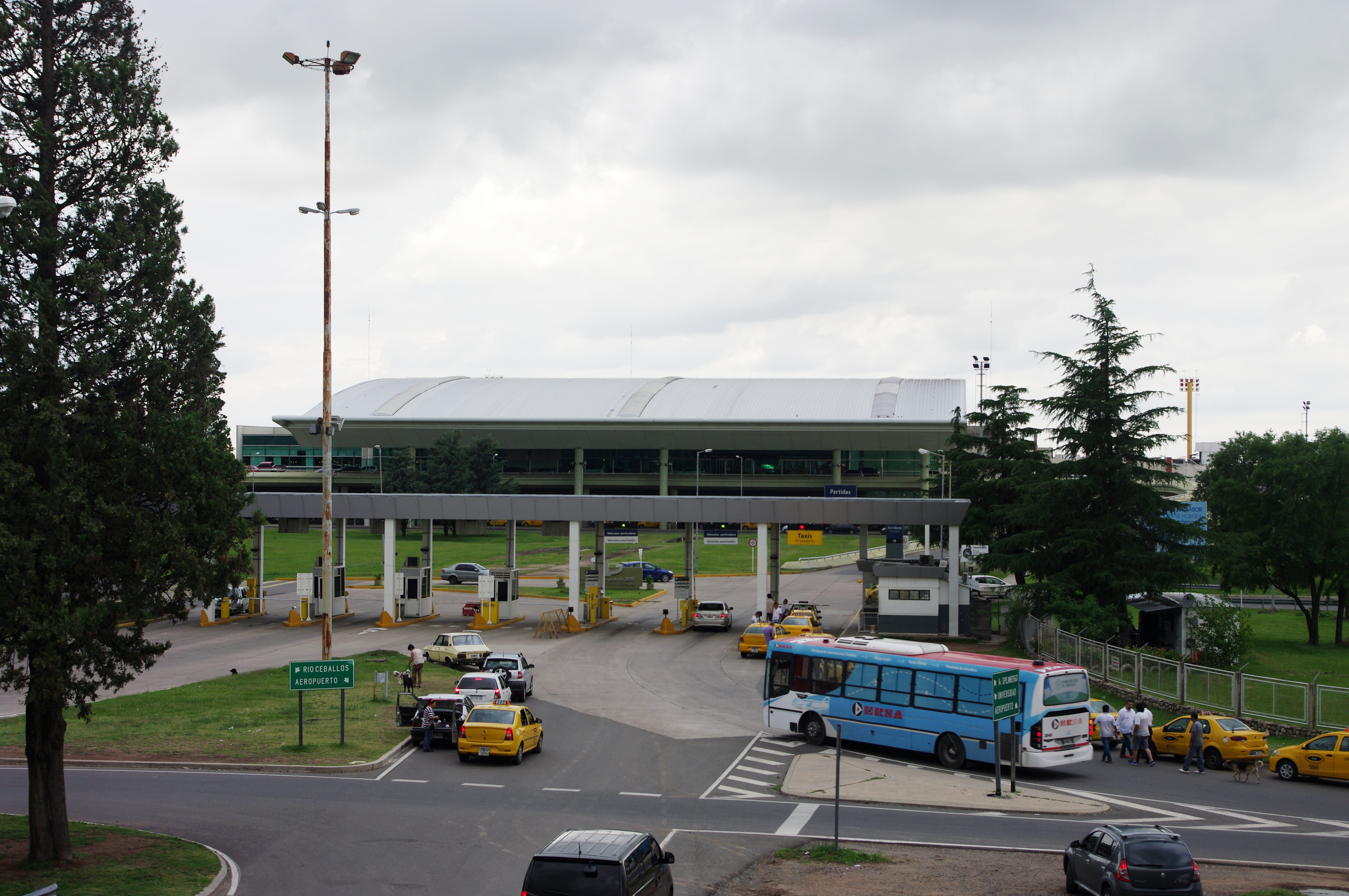 Main entrance to the Ambrosio Taravella Airport, north of Córdoba, Argentina. The terminal was designed by Mario R. Álvarez, and built between 2002 and 2006.